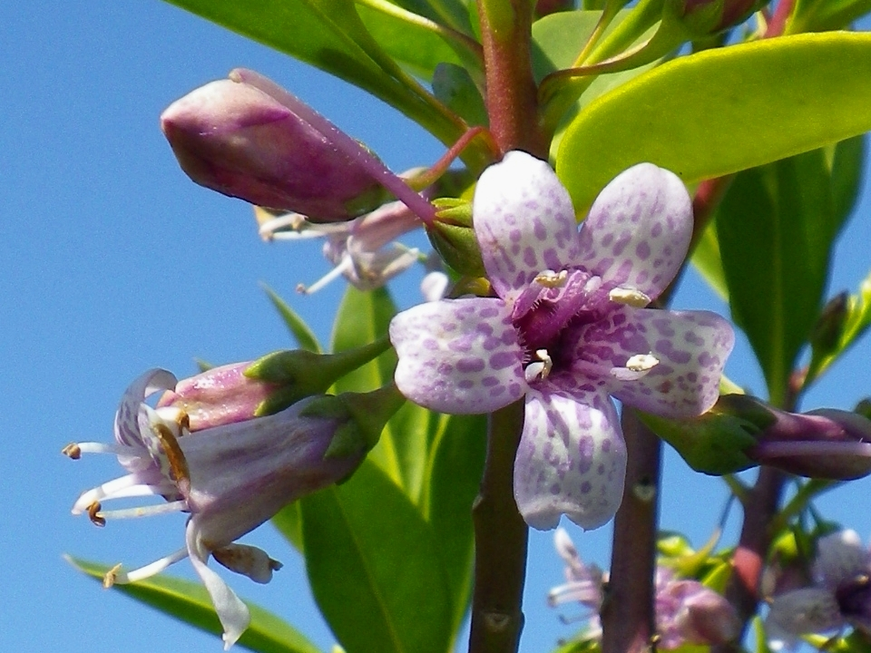 Myoporum bontioides (Sieb. et Zucc.) A. Gray. at Reihoku, Kumamoto, Japan.